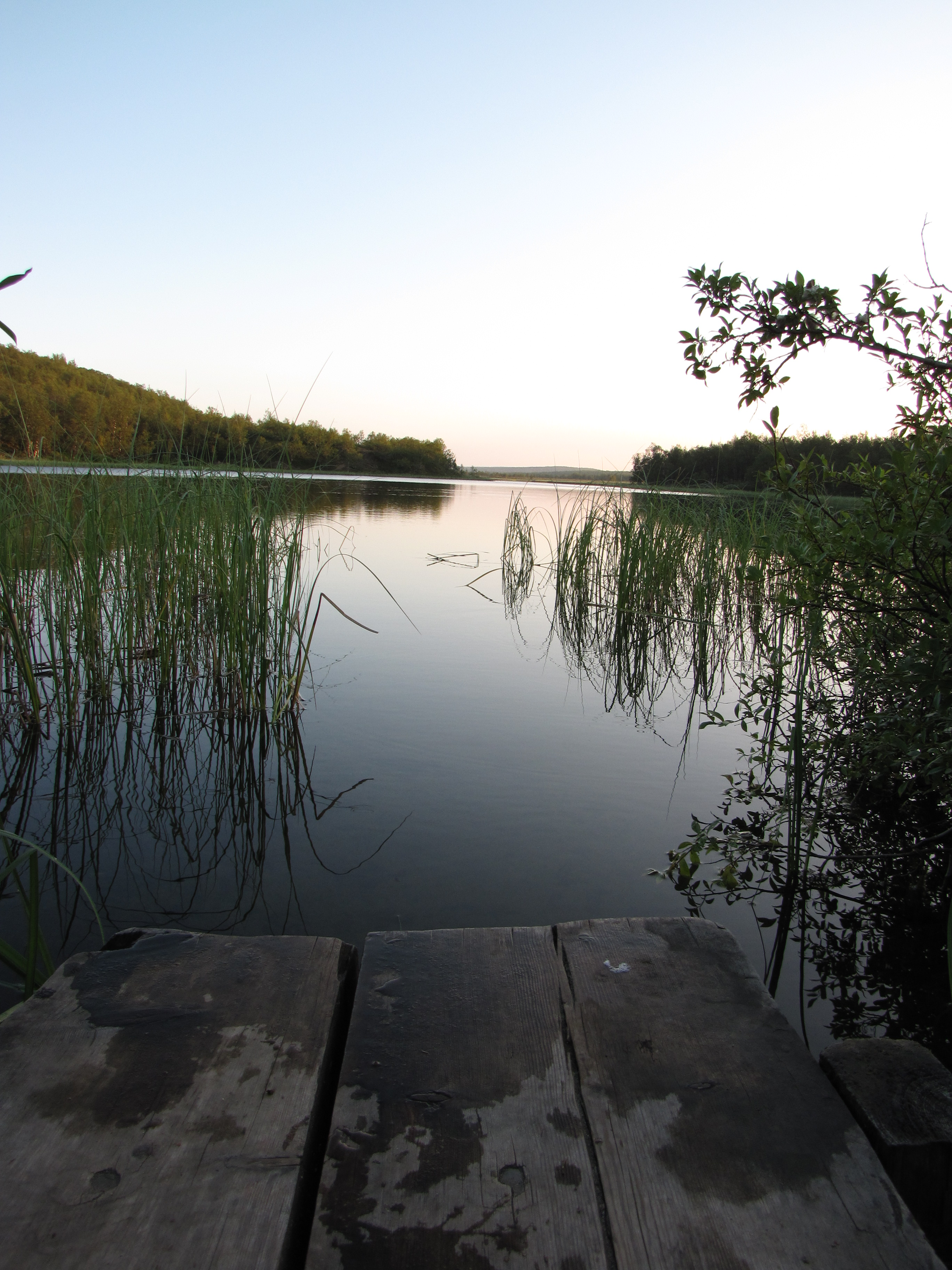 Midnight view at Ruktajärvi lake, Kevo Strict Nature Reserve, Finland